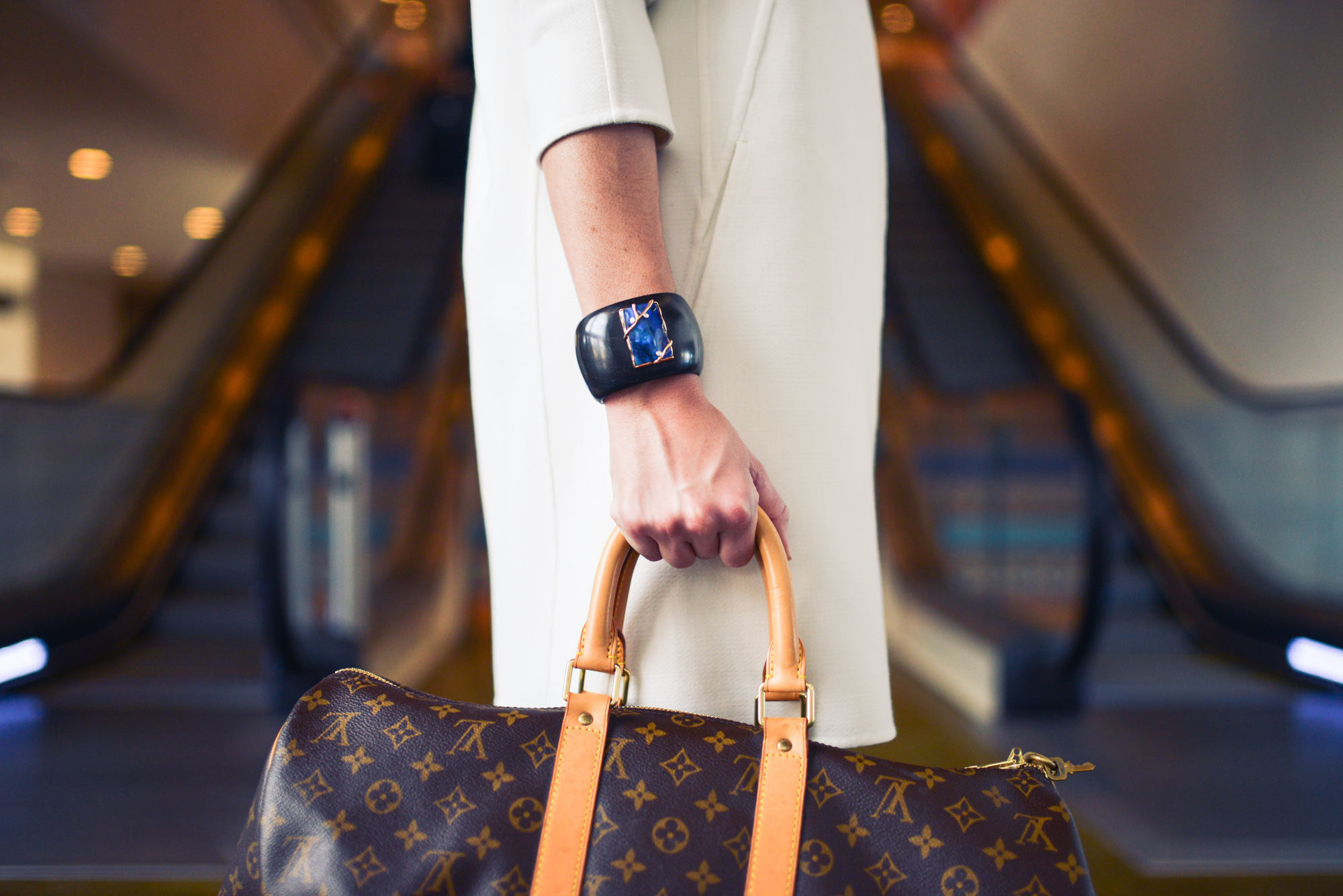 This is a picture of a woman shopping a luxury brand: Louis Vuitton (LV)